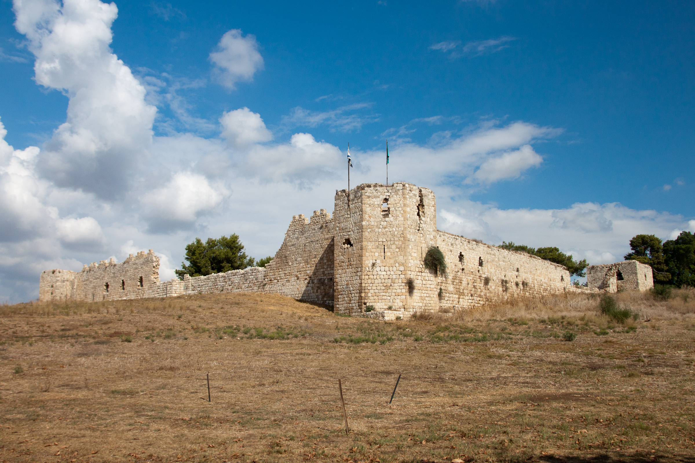 Ottoman fortress at Yarkon National Park, Israel